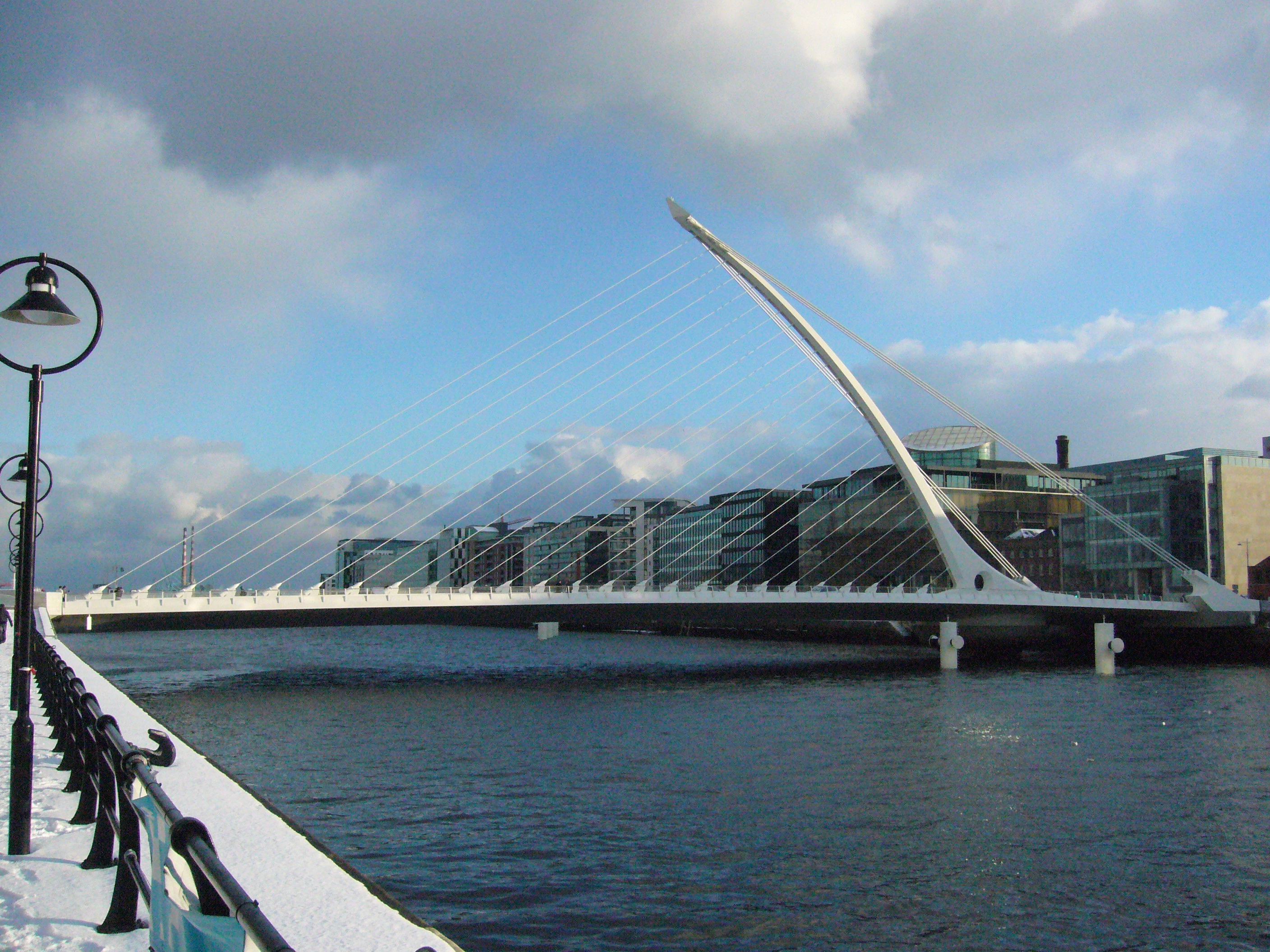 Calatrava-Bridge Dublin